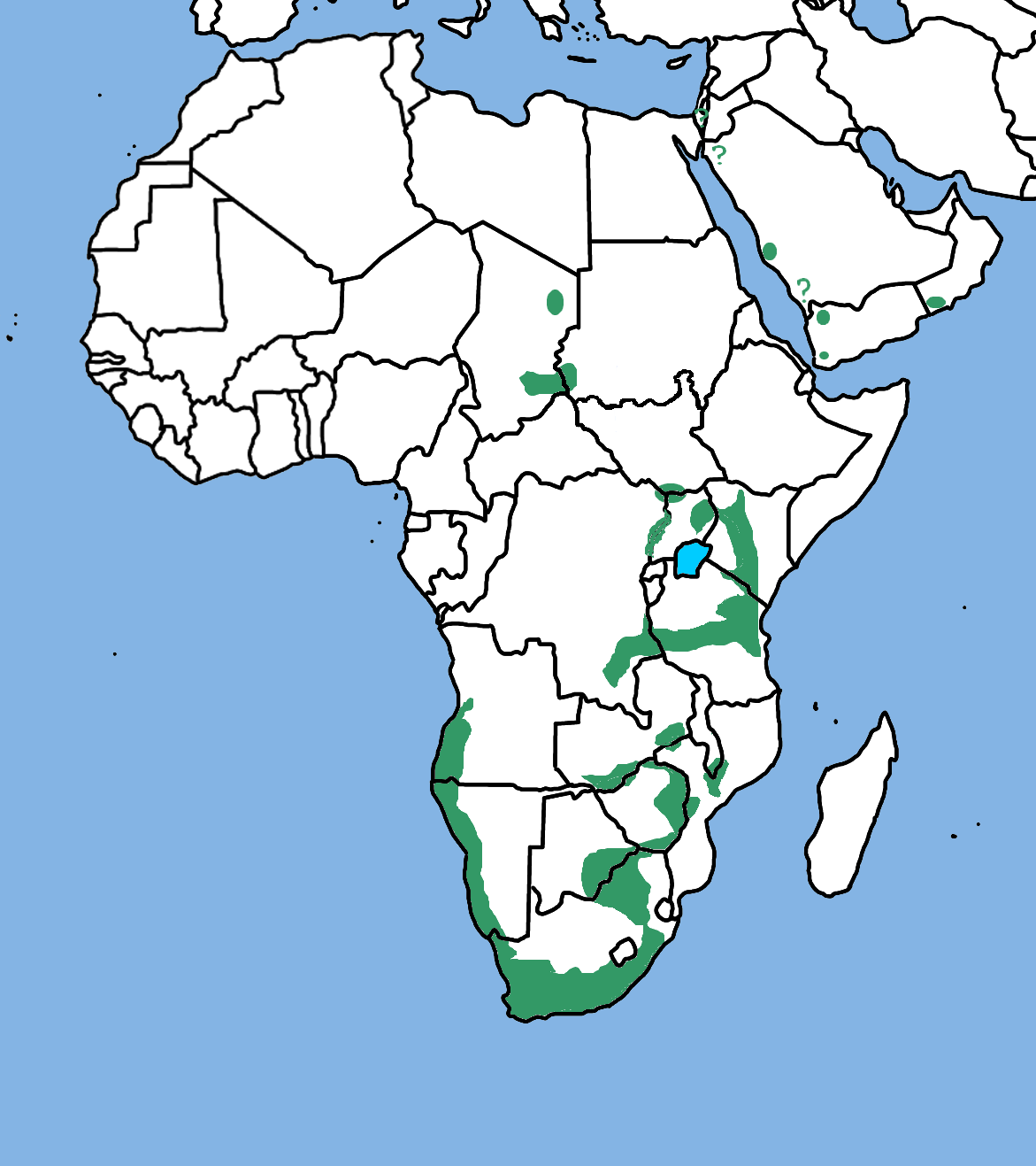 self build by Scops after Fergusson-Lees et al.:Raptors of the World. Helm-London 2001. p 749